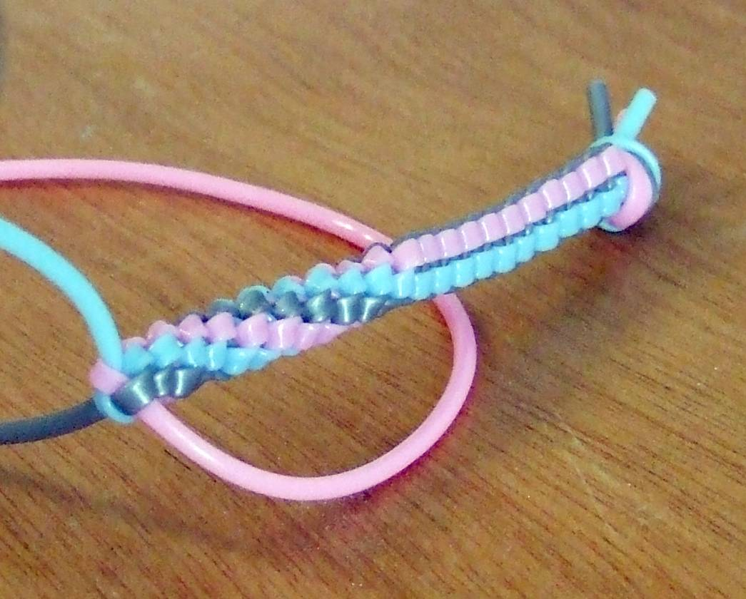 Three-stranded scoubidou. The completed part was made by alternating layer "direction", and the part in progress by a continual spiral (same "direction" for each layer).